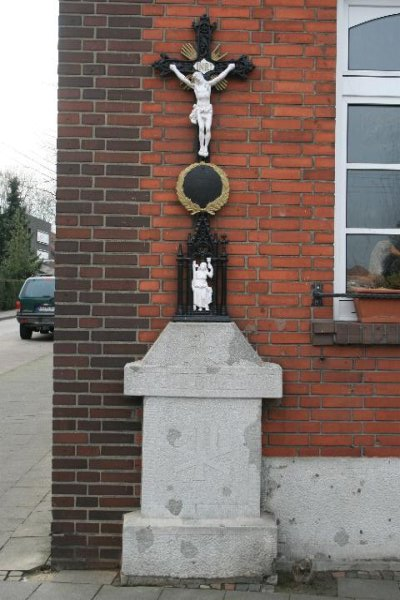 Cultural heritage monument No. 22 in Selfkant